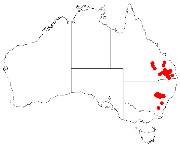 Acacia muelleriana Occurrence data from Australasian Virtual Herbarium downloaded from on 8 December 2018